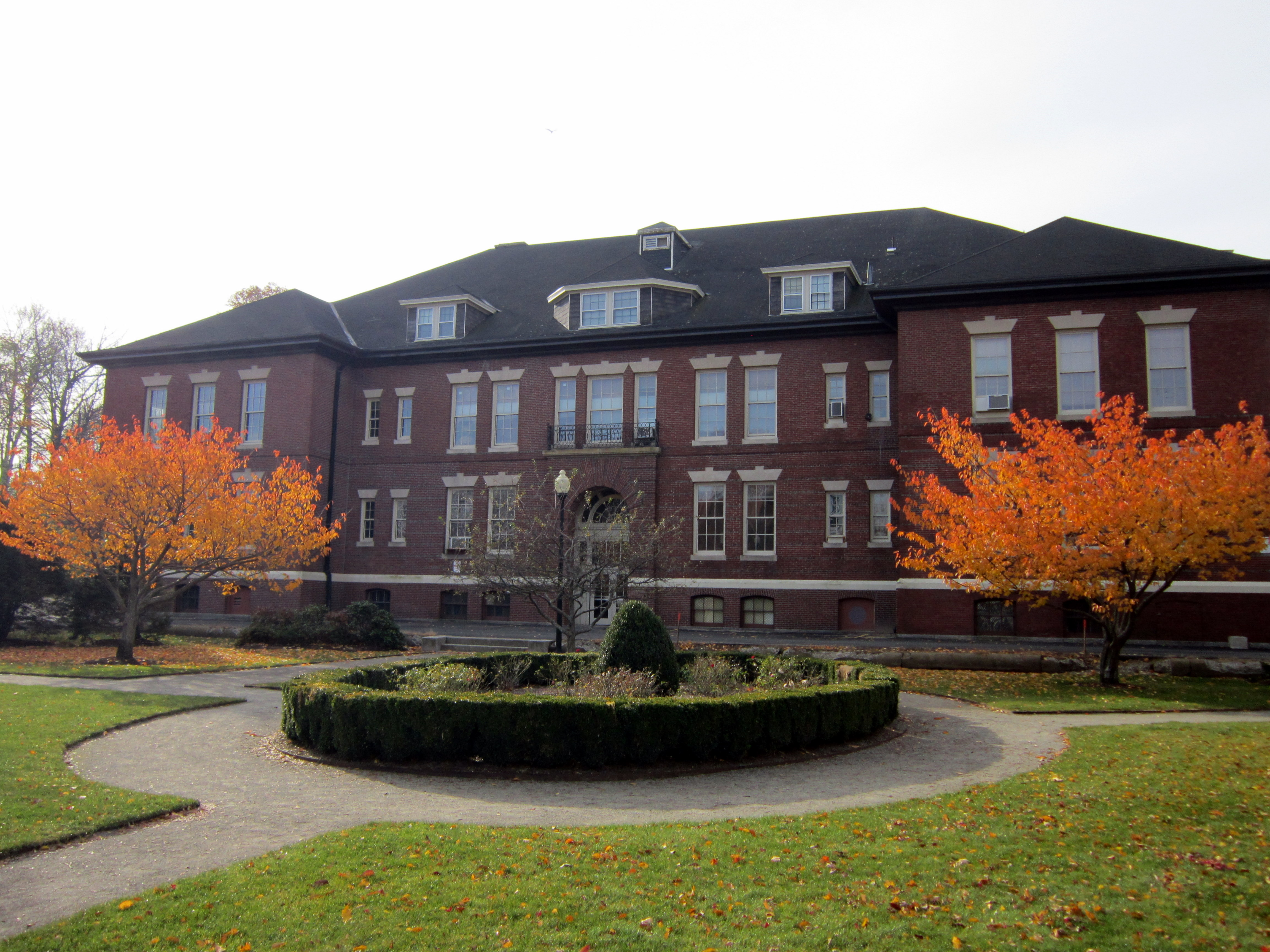 Hardie Building on Beverly Common